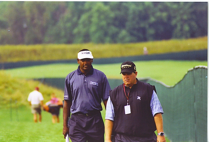 Vijay Singh, Fiji Golfer at 2004 PGA Championship